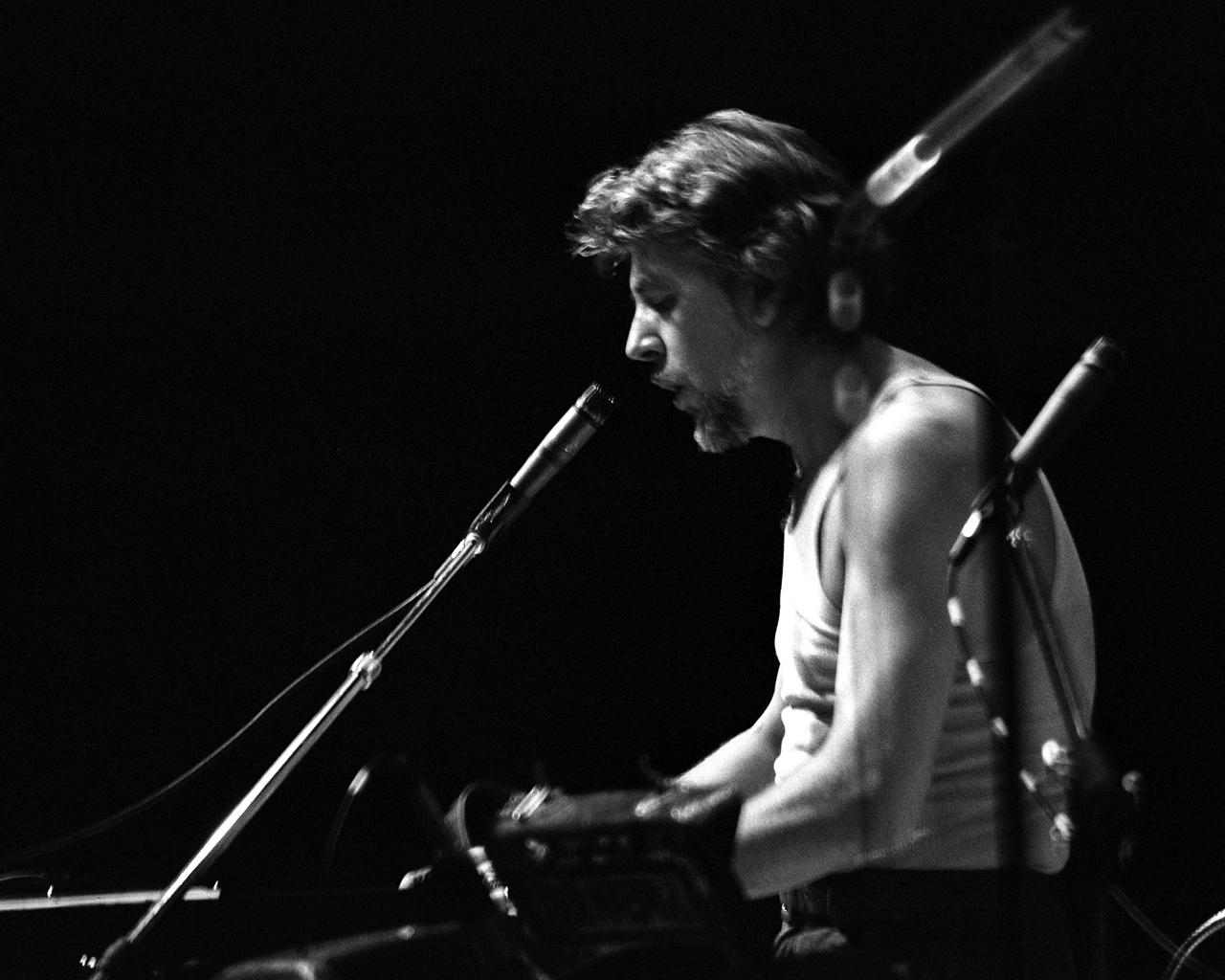 John Mayall in Cleveland in early 1980's